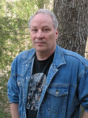 Photograph of author Joe R. Lansdale.